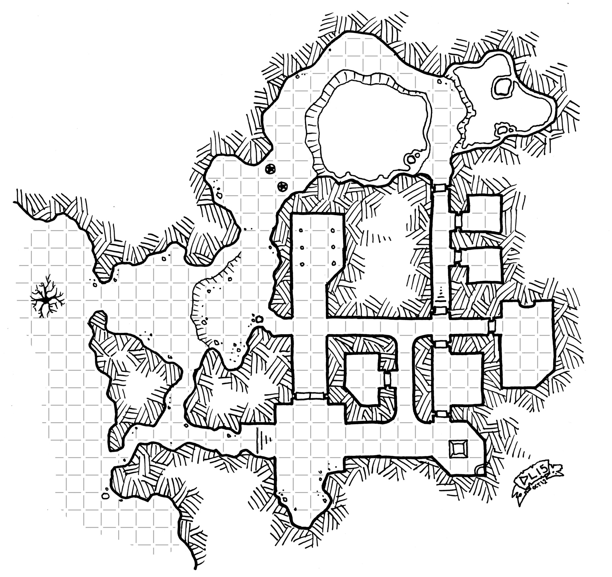 Map of the fictional Warrek’s Nest dungeon.